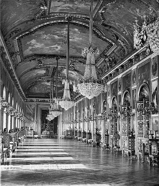 The Galerie Apollon (Gallery of Apollo) of the Château de Saint Cloud, France